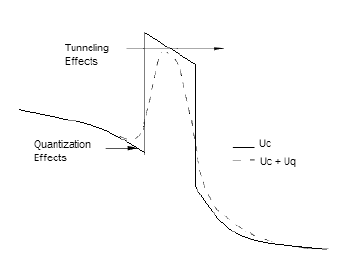 effect of quantum correction